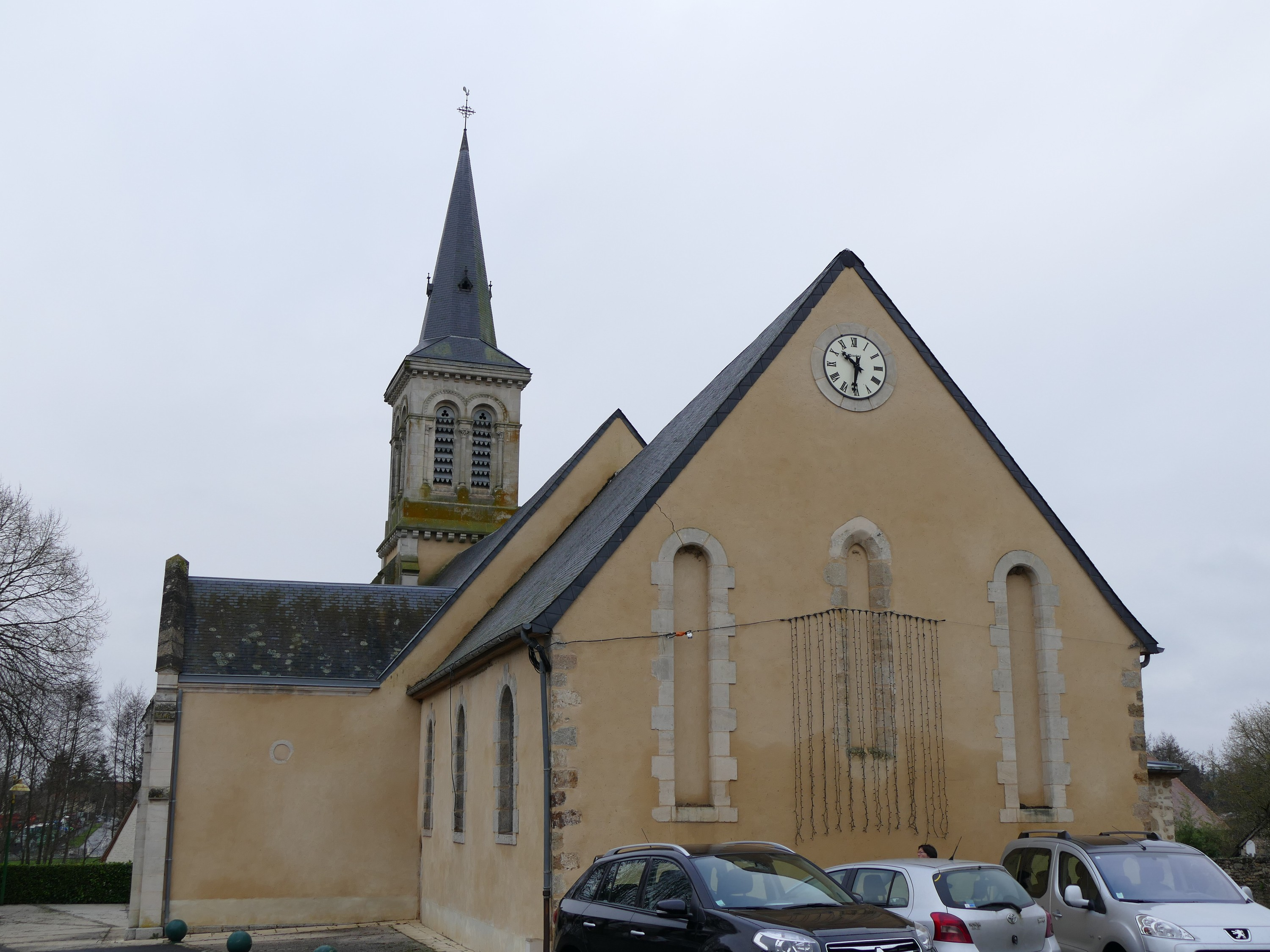 Saint-Sulpice's church in Valframbert (Orne, Normandie, France).